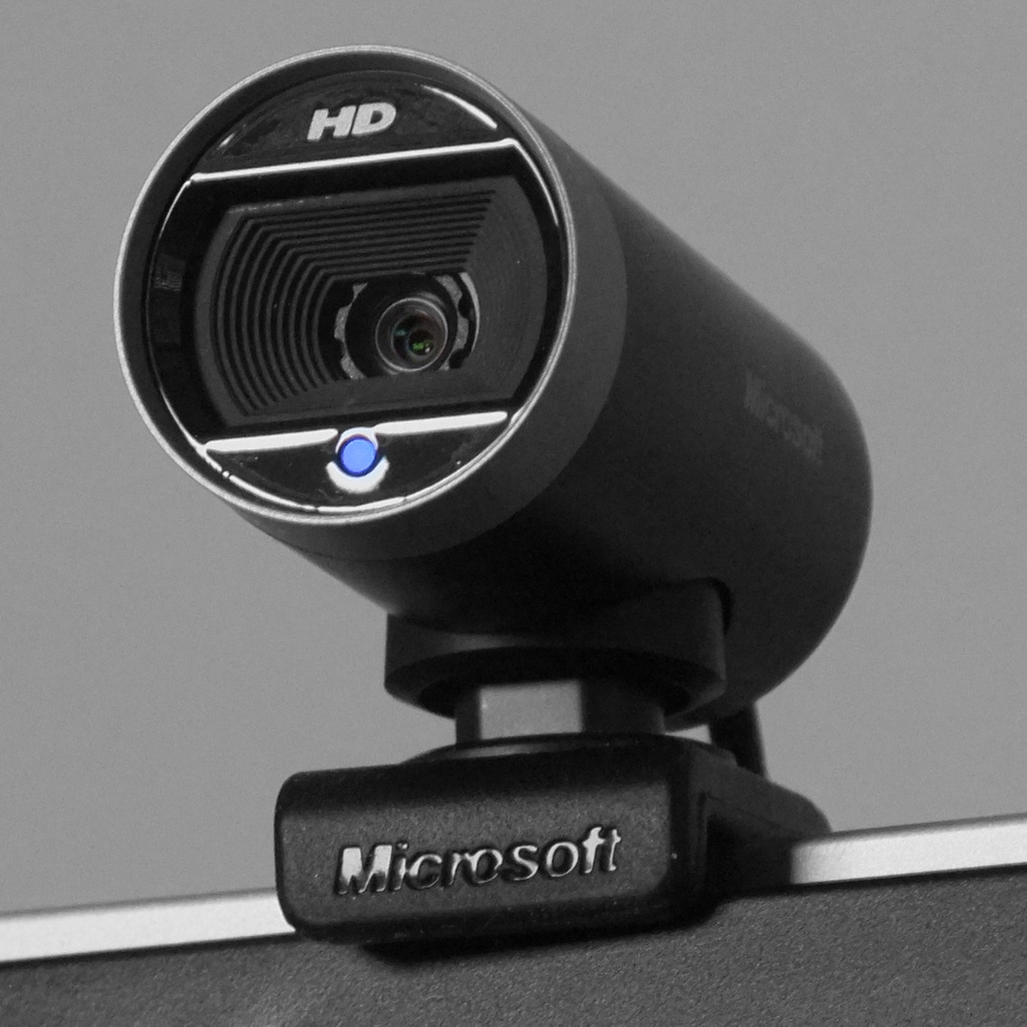 Photo of the first consumer 720p Webcam Microsoft LifeCam Cinema